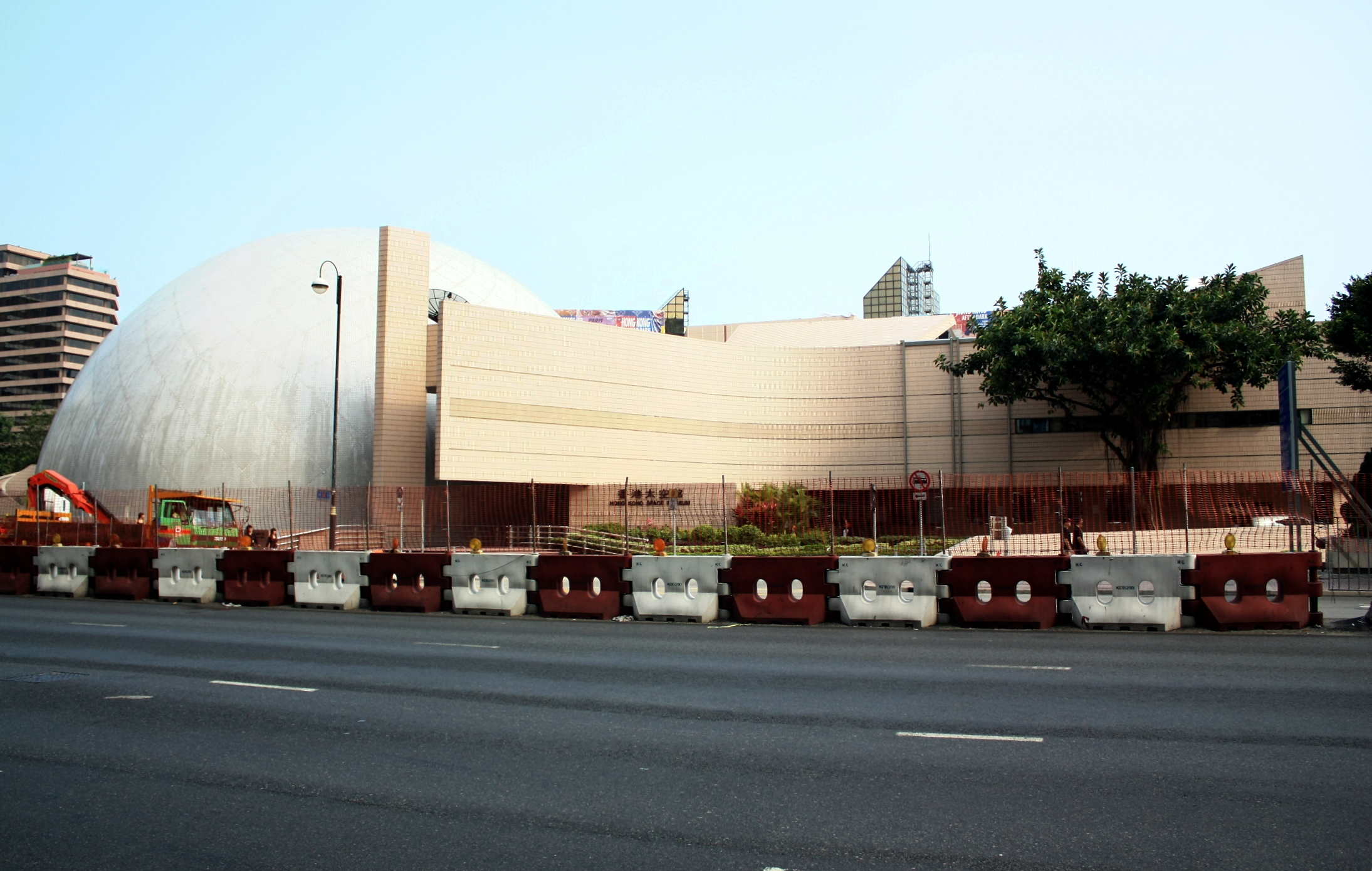 HK Space Museum 香港太空館